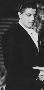 Julio Bianquet-actor